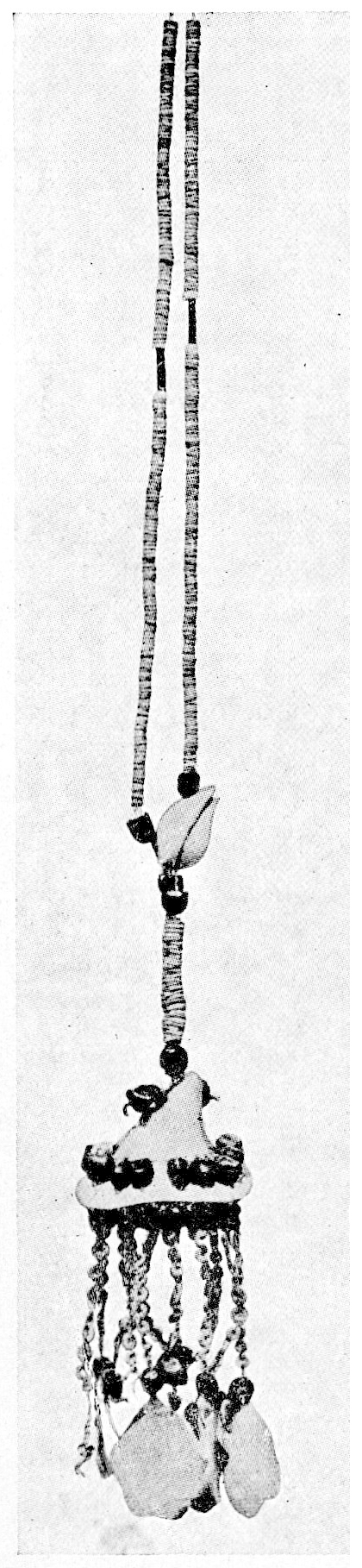 a soulava, one of the two main kinds of objects in the Kula ritual from Melanesia